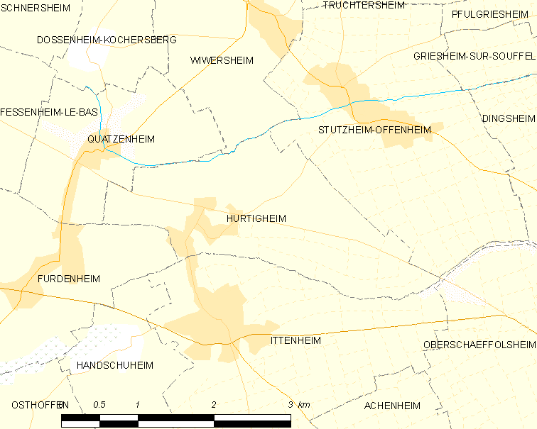 Map of French municipality